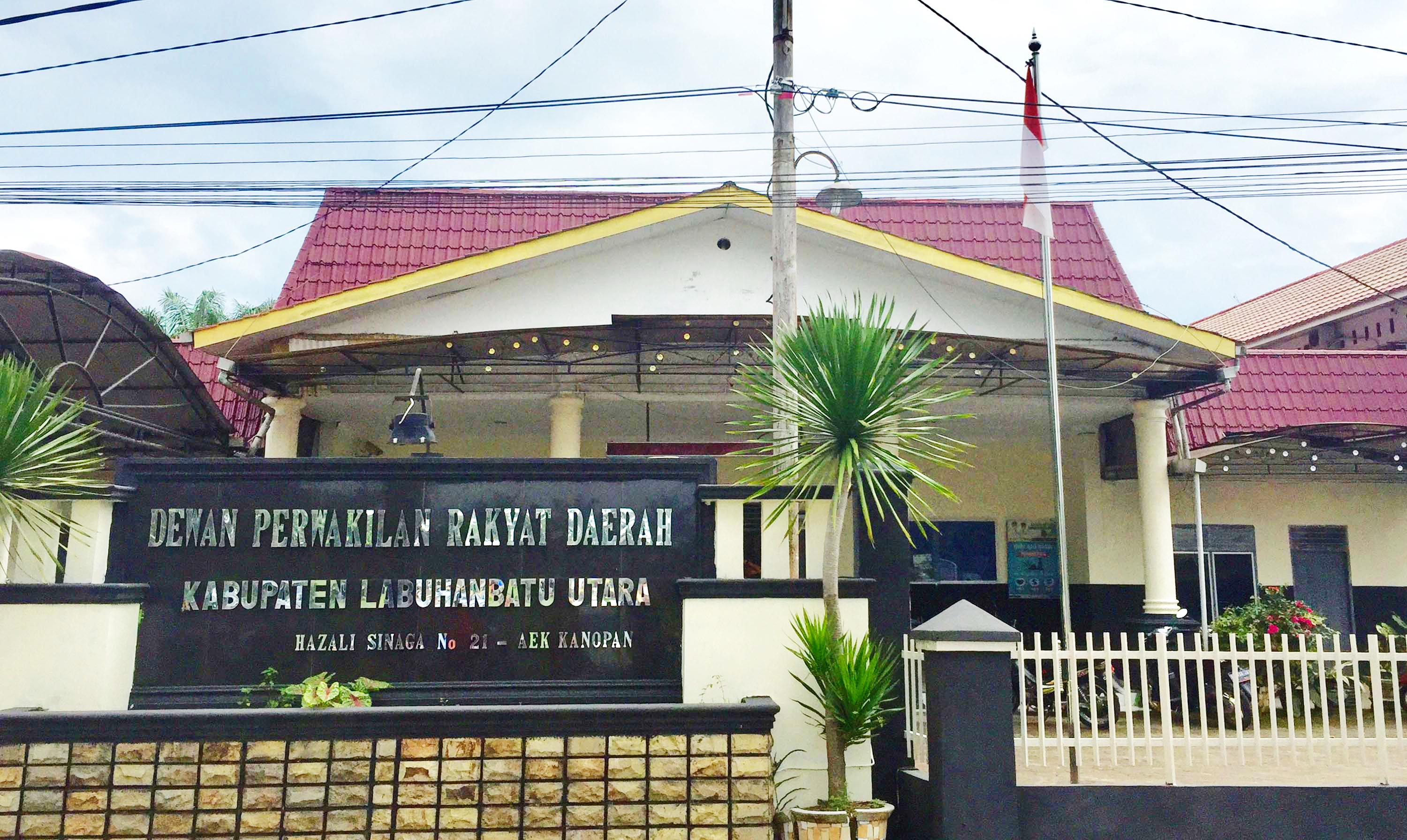 Office of DPRD North Labuhanbatu, North Sumatra